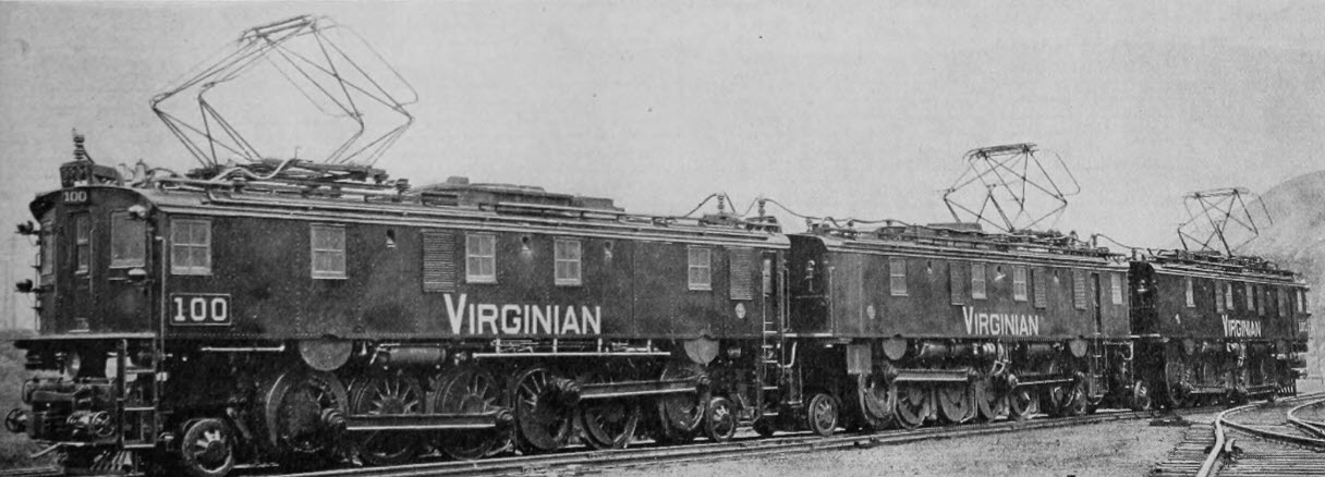 Builders photo of Virginian Railway EL-3A #100